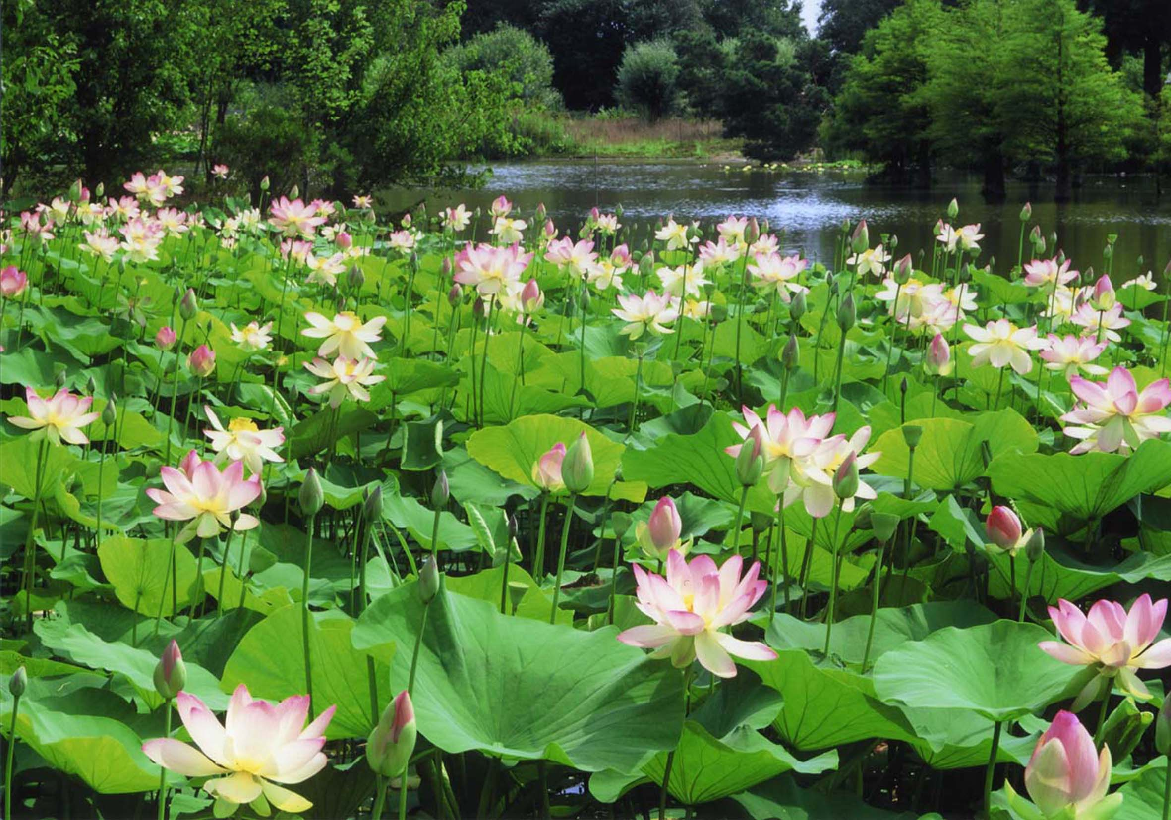 Lotus flowers in the Pond in the Arboretum Ellerhoop, Germany